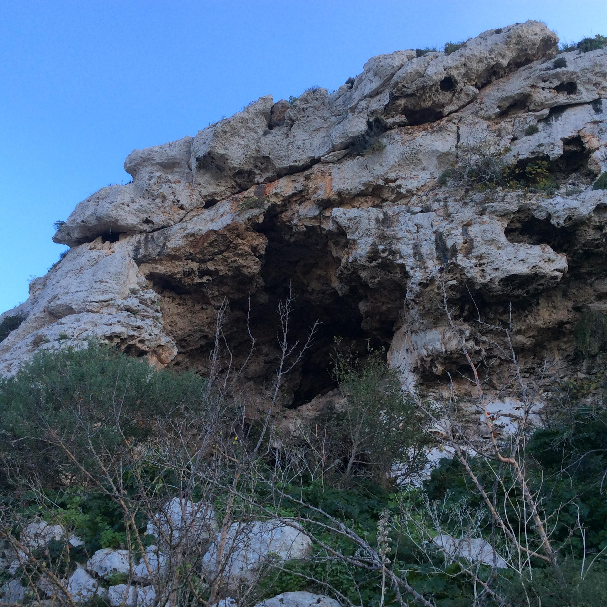 Gharghur cave - 1 (large cave) Malta